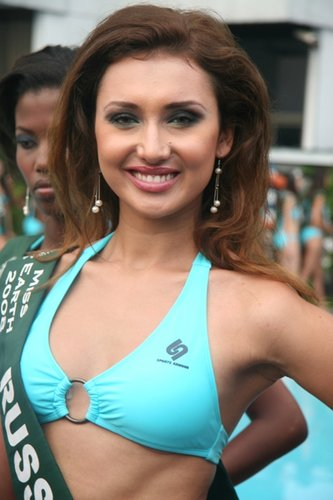 Anna Mezentsewa - Miss Earth Russia 2008